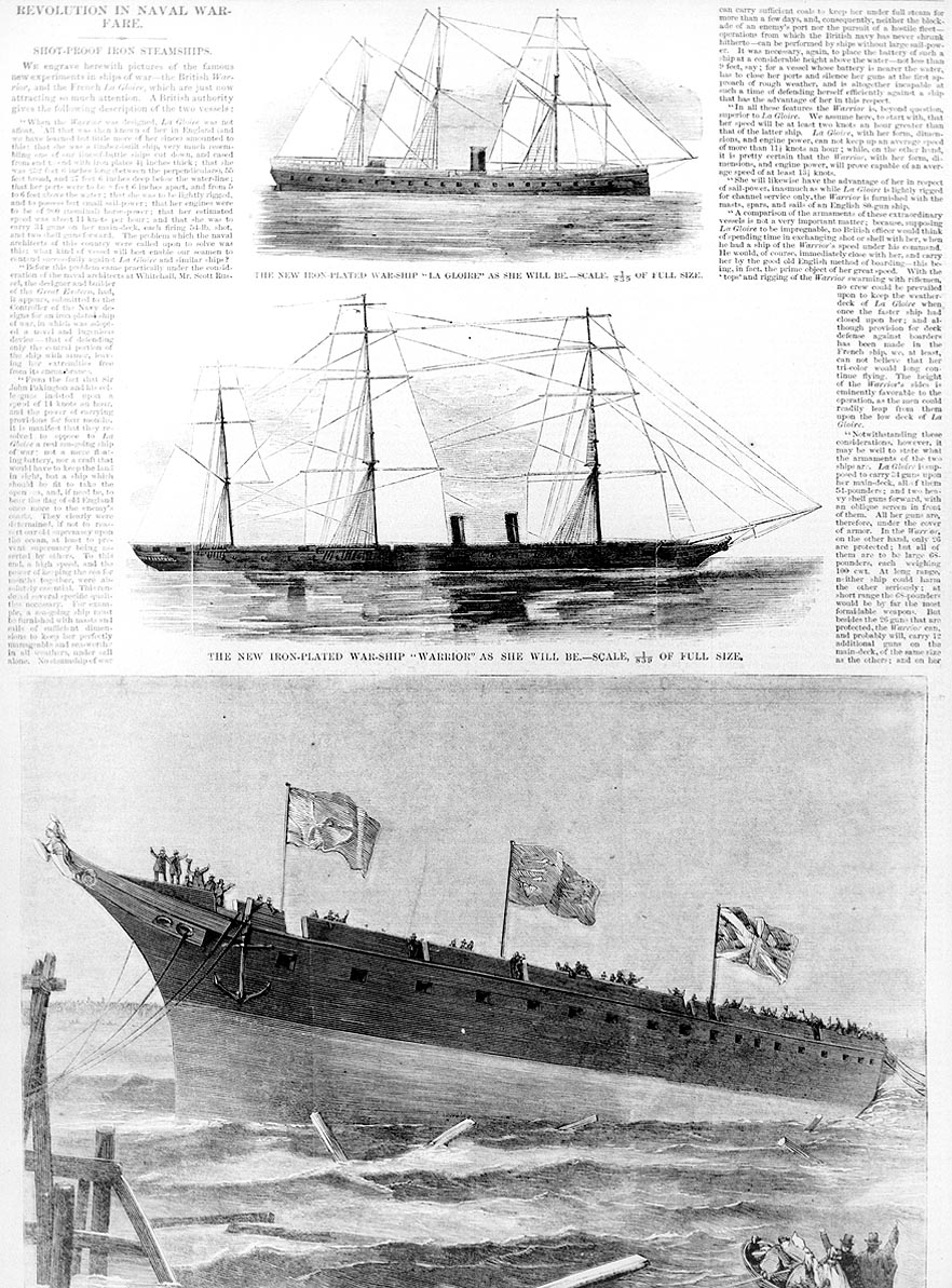 French ironclad warship Gloire and battleship Warrior "Revolution in Naval Warfare. -- Shot-Proof Iron Steamships." Article published in "Harper's Weekly", 9 February 1861. It features a discussion (by a British author) of the new ironclads Gloire (French) and Warrior (British), with line engravings of both ships (in the same scale) and a view of Warrior's launching at Blackwall, England, on 29 December 1860. Photo #: NH 59569